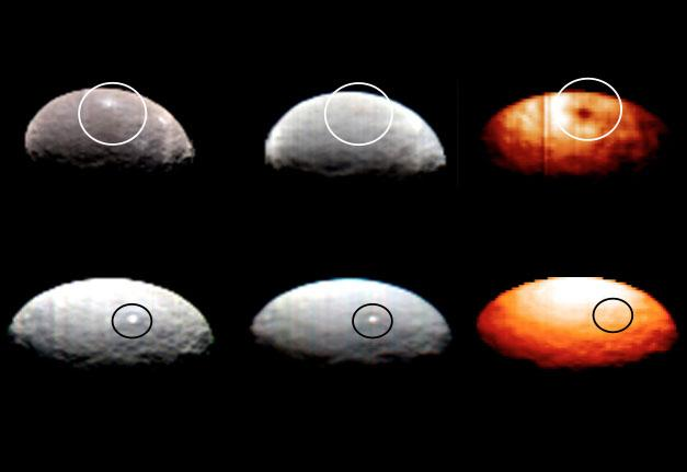 PIA19316: Dawn VIR Images of Ceres These images, from Dawn's visible and infrared mapping spectrometer (VIR), highlight two regions on Ceres containing bright spots. The top images show a region scientists have labeled "1" and the bottom images show the region labeled "5." Region 5 contains the brightest spots on Ceres. VIR has been examining the relative temperatures of features on Ceres' surface. Preliminary examination suggests that region 1 is cooler than the rest of Ceres' surface, but region 5 appears to be located in a region that is similar in temperature to its surroundings. The Dawn mission is managed by NASA's Jet Propulsion Laboratory, Pasadena, California, for NASA's Science Mission Directorate in Washington. Dawn is a project of the directorate's Discovery Program, managed by NASA's Marshall Space Flight Center in Huntsville, Alabama. The University of California, Los Angeles, is responsible for overall Dawn mission science. Orbital ATK, Inc., in Dulles, Virginia, designed and built the spacecraft. The German Aerospace Center, the Max Planck Institute for Solar System Research, the Italian Space Agency and the Italian National Astrophysical Institute are international partners on the mission team.The Dawn mission is managed by NASA's Jet Propulsion Laboratory, Pasadena, California, for NASA's Science Mission Directorate in Washington. Dawn is a project of the directorate's Discovery Program, managed by NASA's Marshall Space Flight Center in Huntsville, Alabama. The University of California, Los Angeles, is responsible for overall Dawn mission science. Orbital ATK, Inc., in Dulles, Virginia, designed and built the spacecraft. The German Aerospace Center, the Max Planck Institute for Solar System Research, the Italian Space Agency and the Italian National Astrophysical Institute are international partners on the mission team. For a complete list of acknowledgments